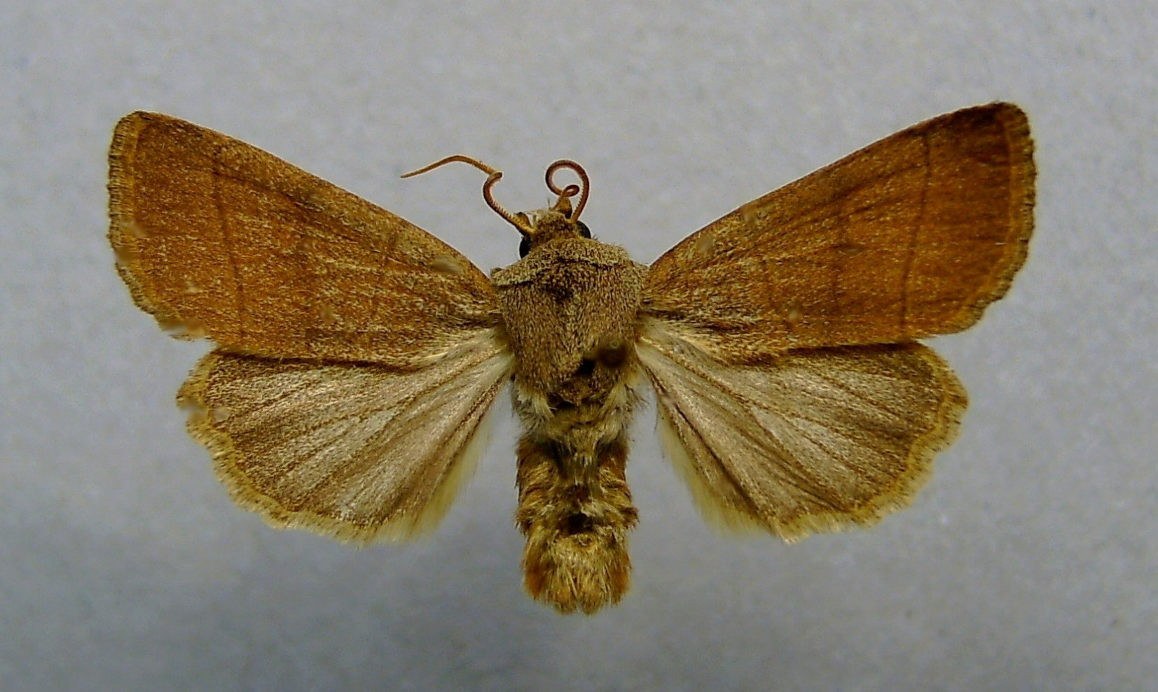 Charanyca trigrammica